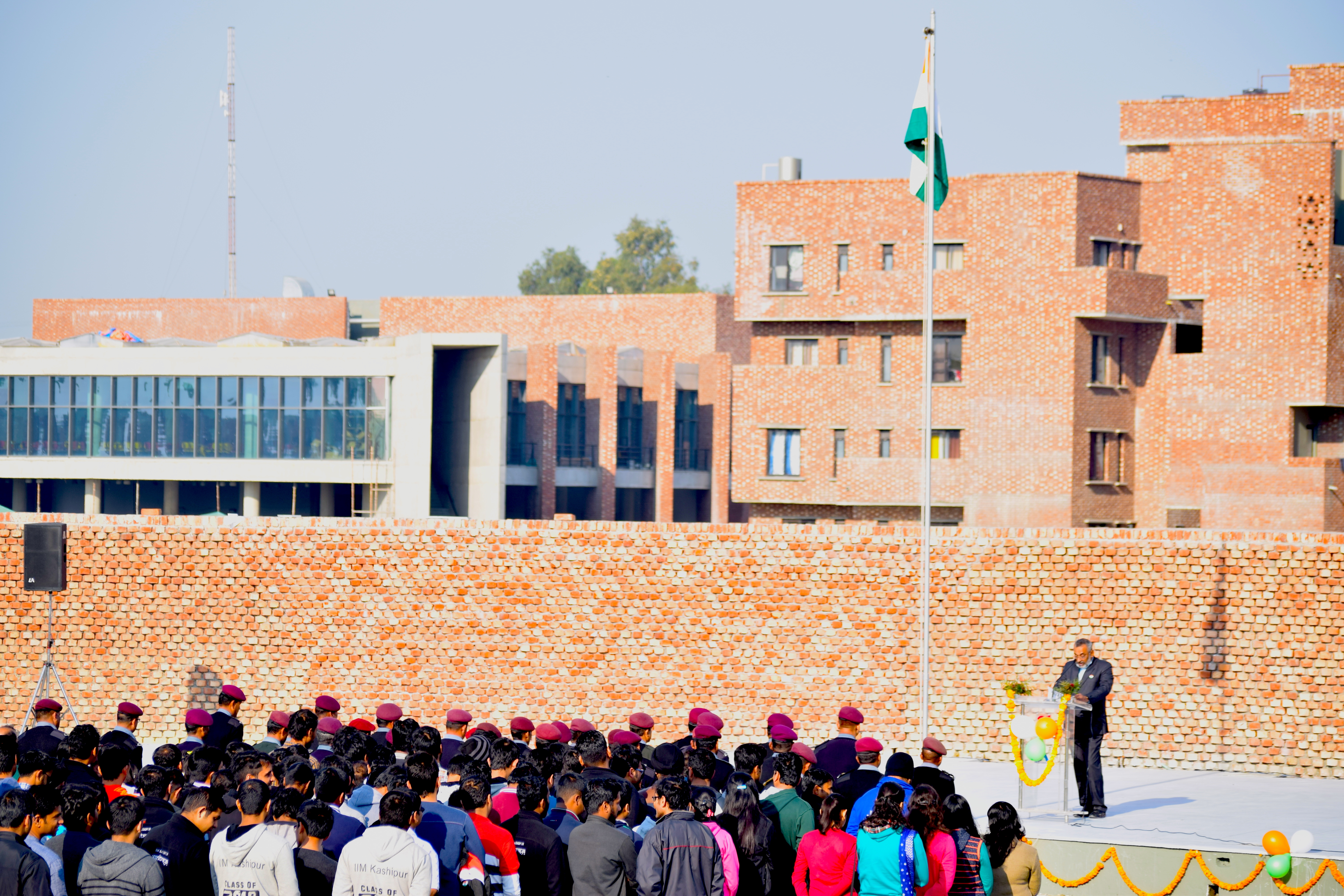 This is the new permanent campus of IIM Kashipur. In picture is the hostel block, mess complex and the amphitheatre.